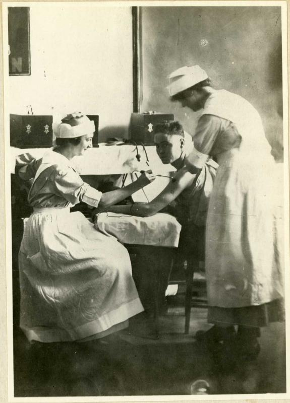 Use of electrical apparatus. Interrupted galvanism used in regeneration of deltoid muscle. [World War 1?]